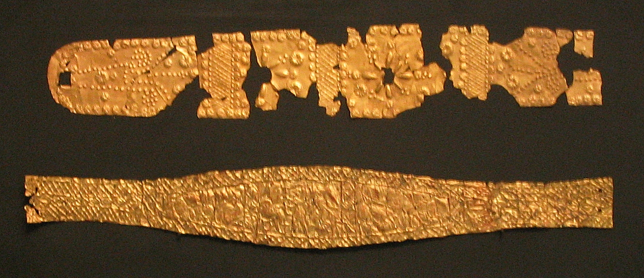 Gold headband from grave, Thebes 750 to 700 B.C. (Copenhagen Museum)